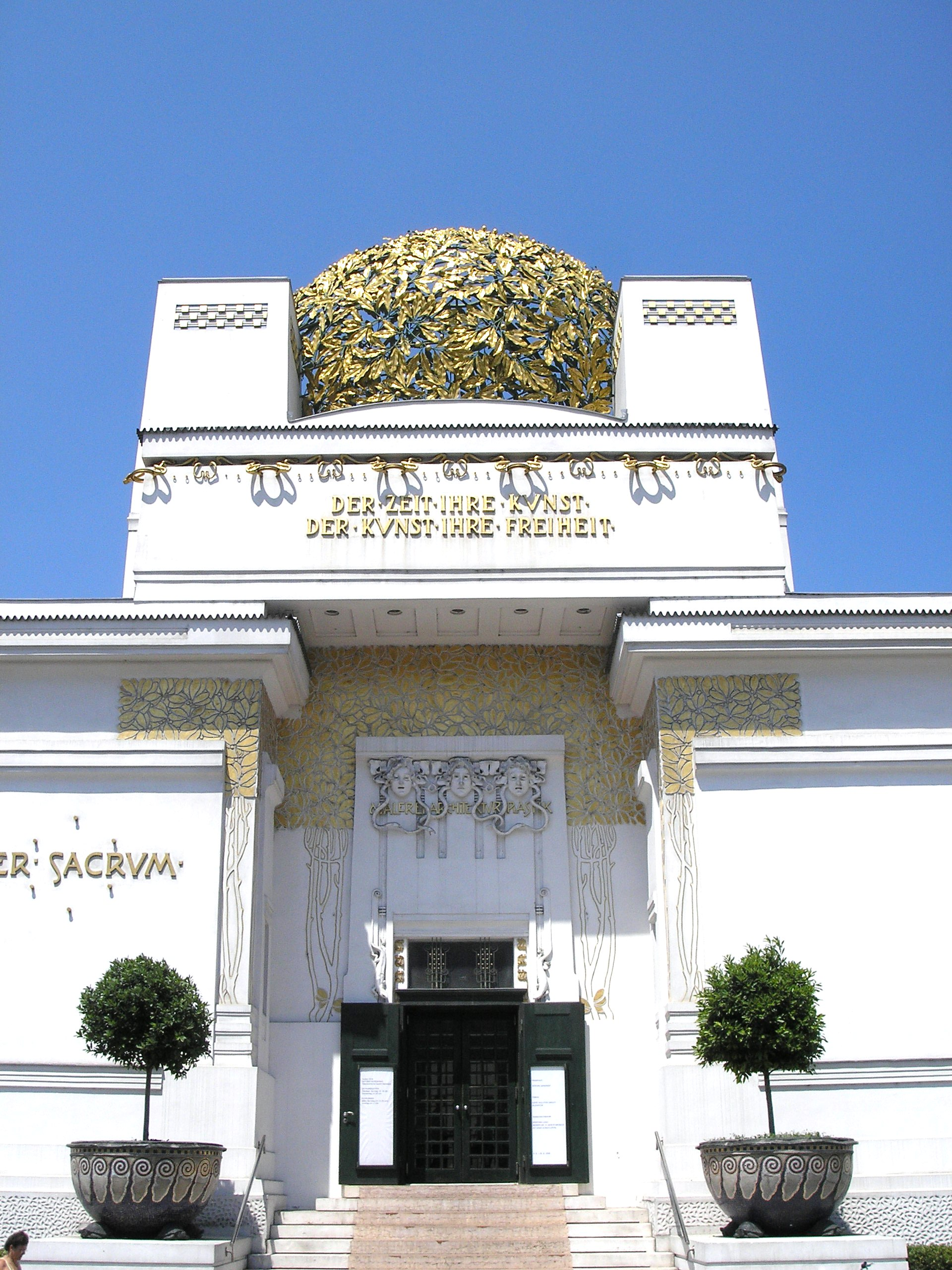 Austria, Vienna, Secession hall